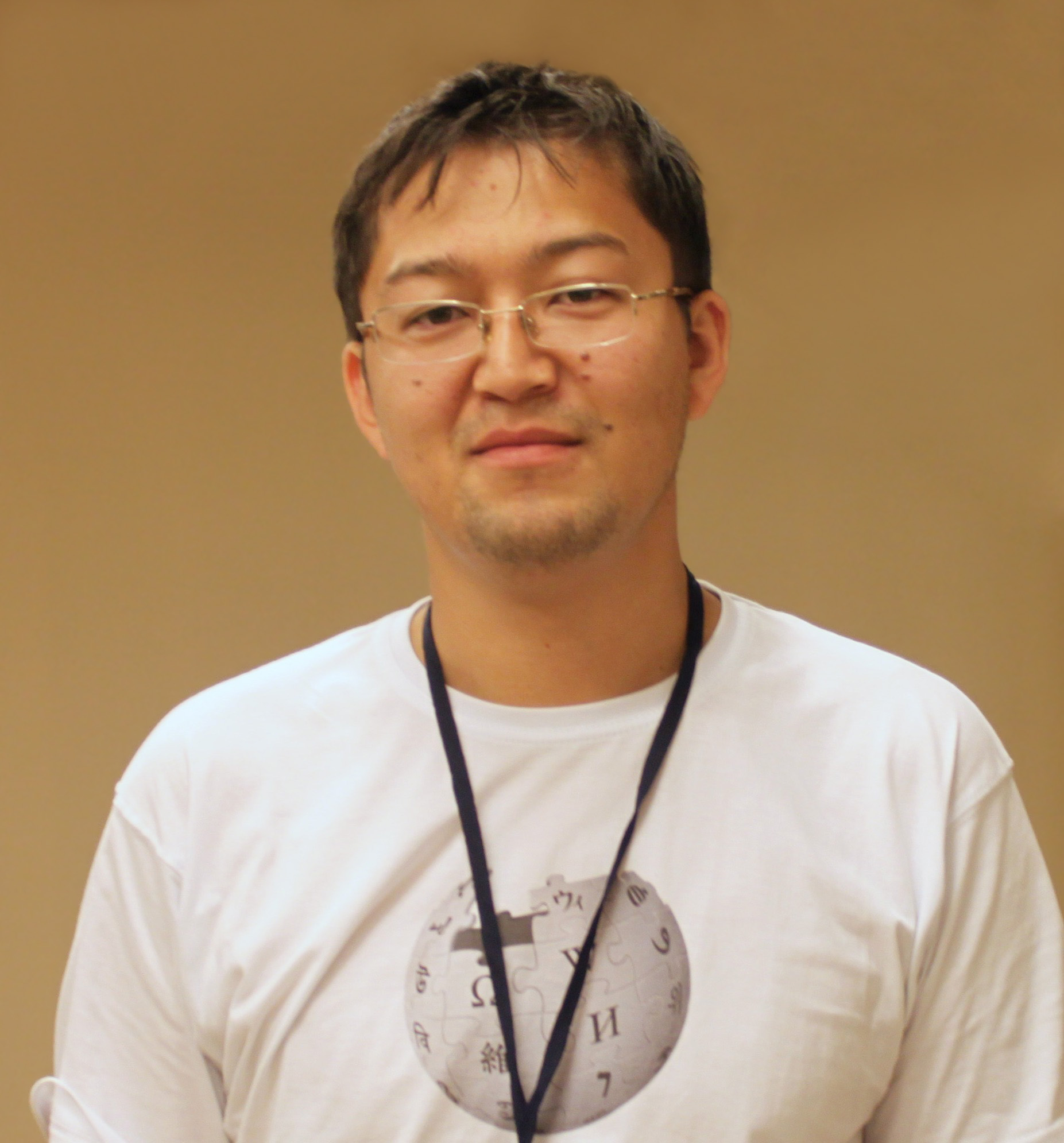 Moscow Wiki-Conference 2014 (photos; 2014-09-14). User:Kayir